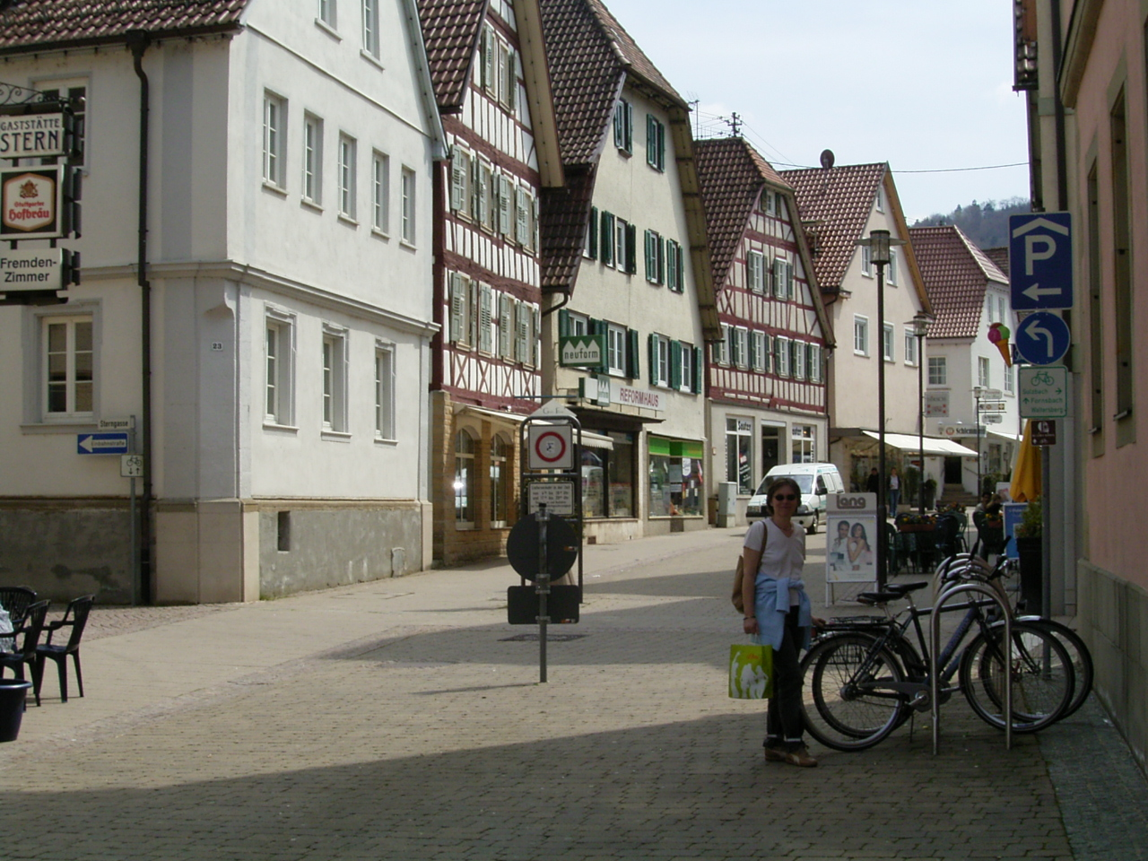 Murrhardt, Germany (Downtown); Foto by Martin Helfer Apr. 2006